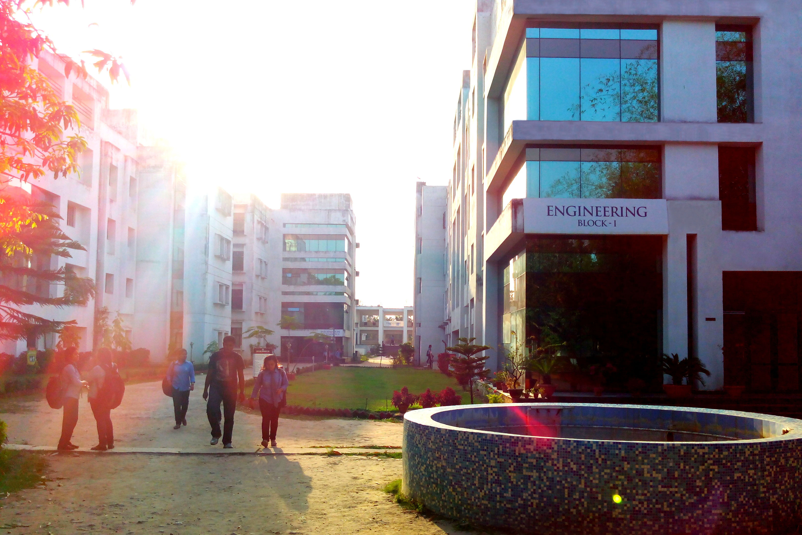 Brainware Group of Institutions, Situated in Barasat, Kolkata.